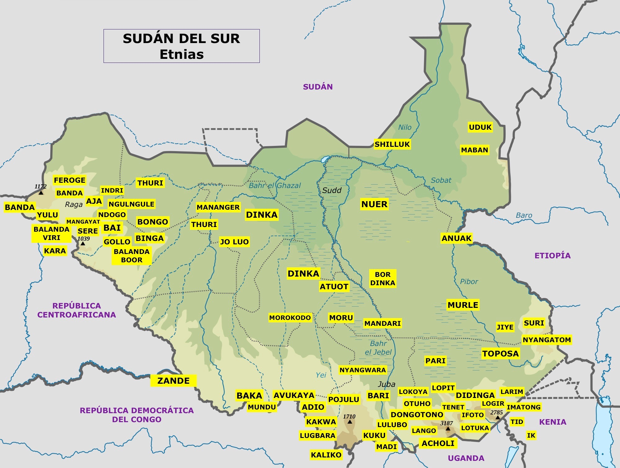 Ethno-linguistic Map of South Sudan